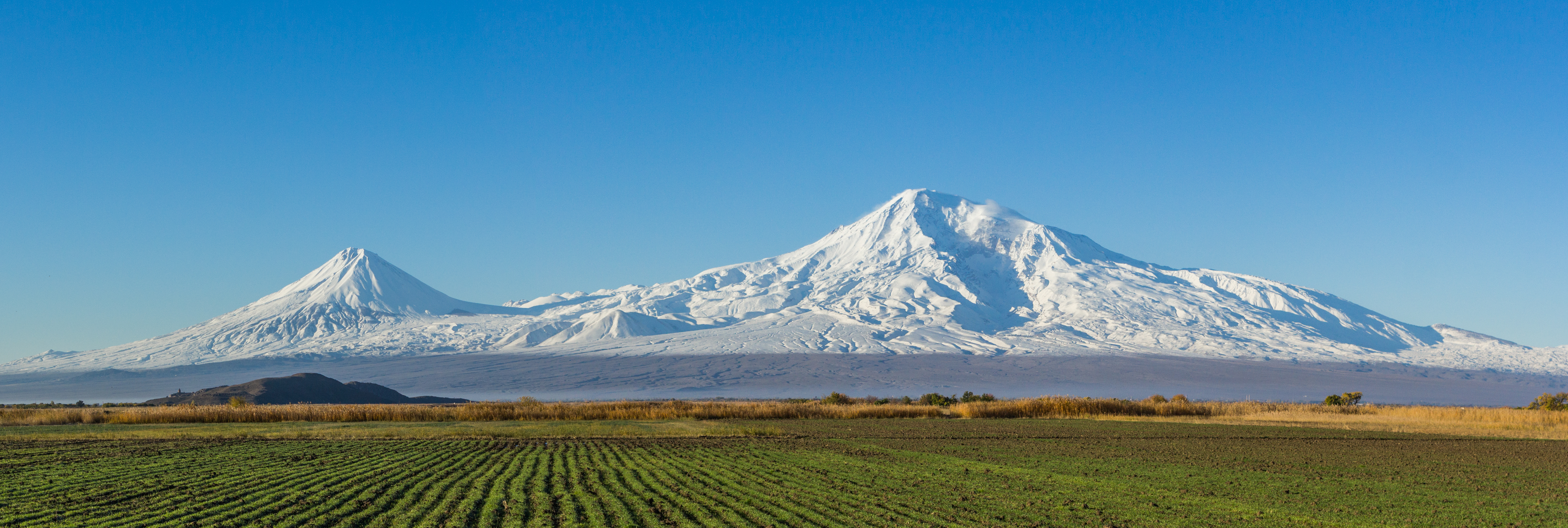 Mount Ararat and the Araratian plain seen early morning from near the city of Artashat in Armenia. On the center left can be seen the historic Khor Virap monastery. (Stitched from two images.)